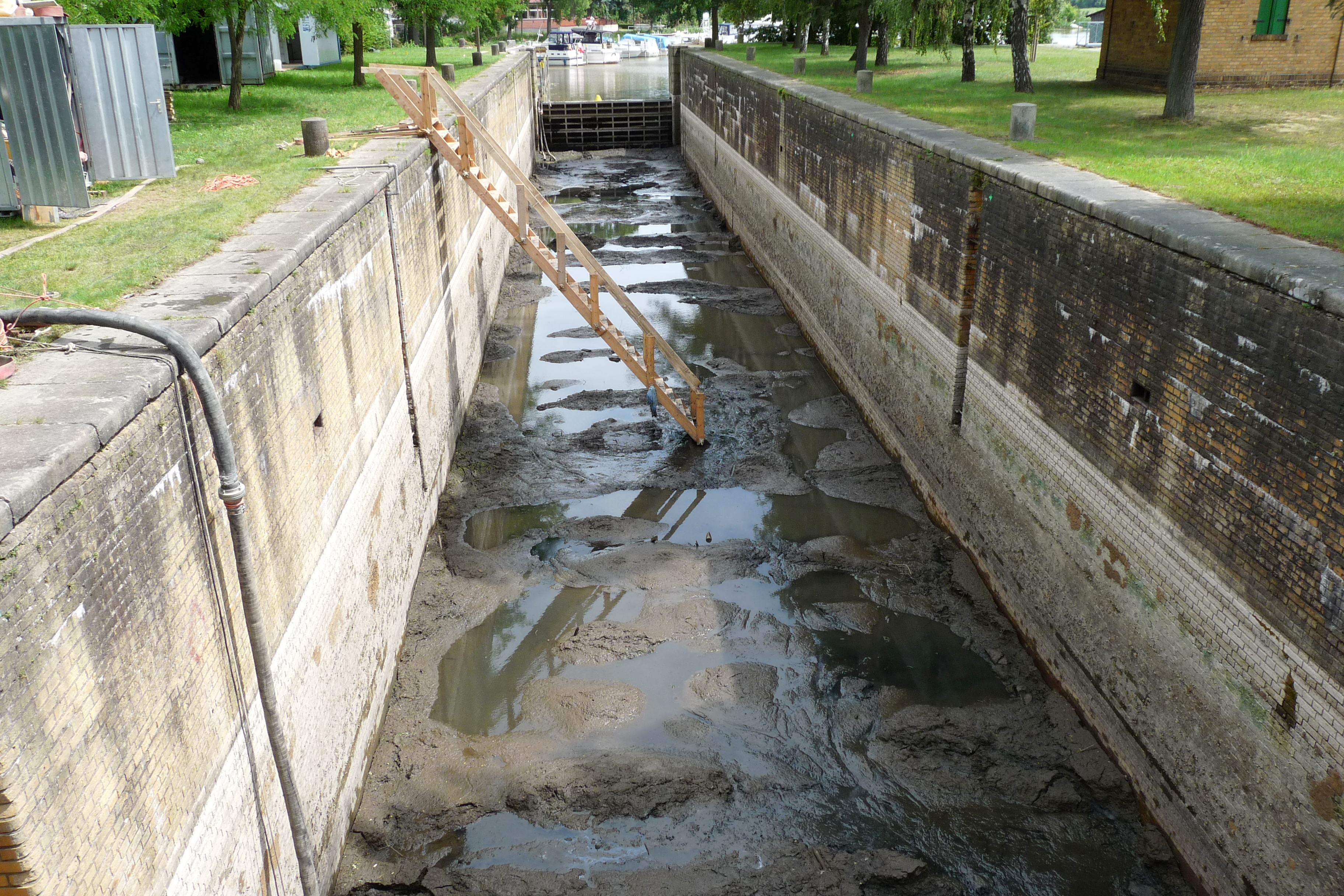 View into the emty lock